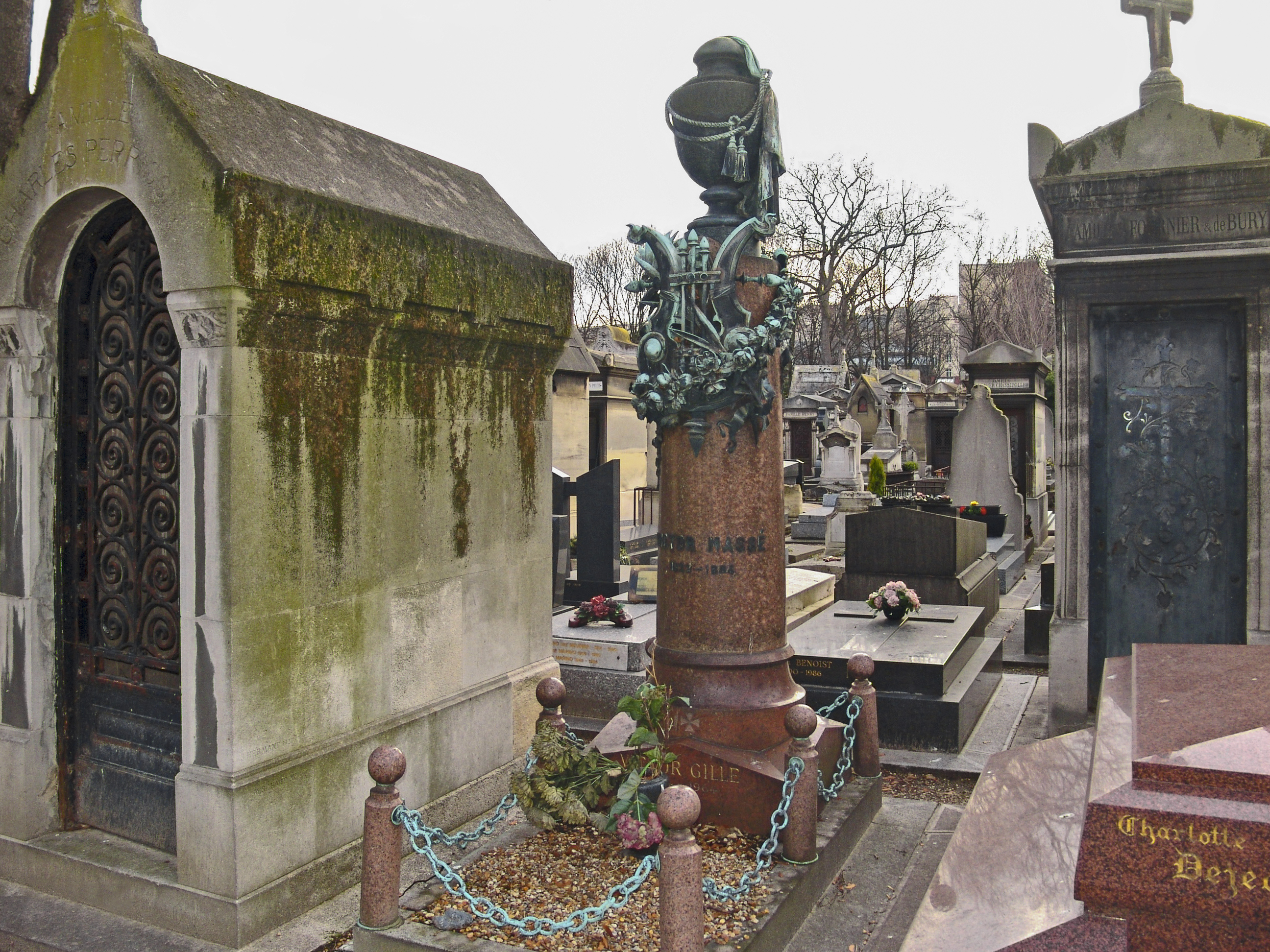 Victor Massé’s Tomb by Charles Garnier - Montmartre Cimetery – Paris